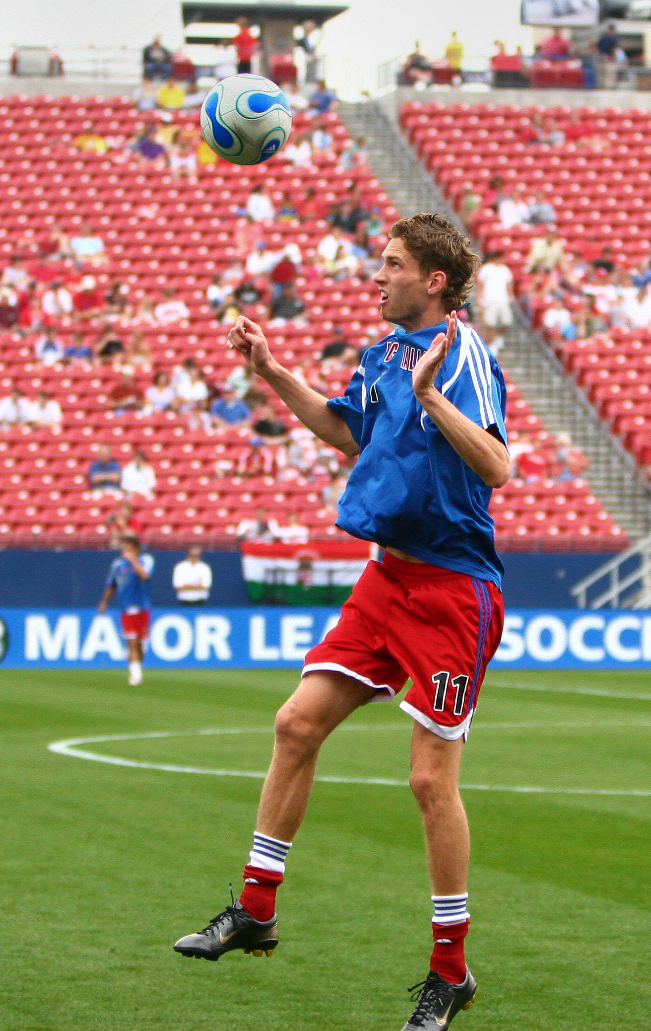 pregame photo of goodson warming up